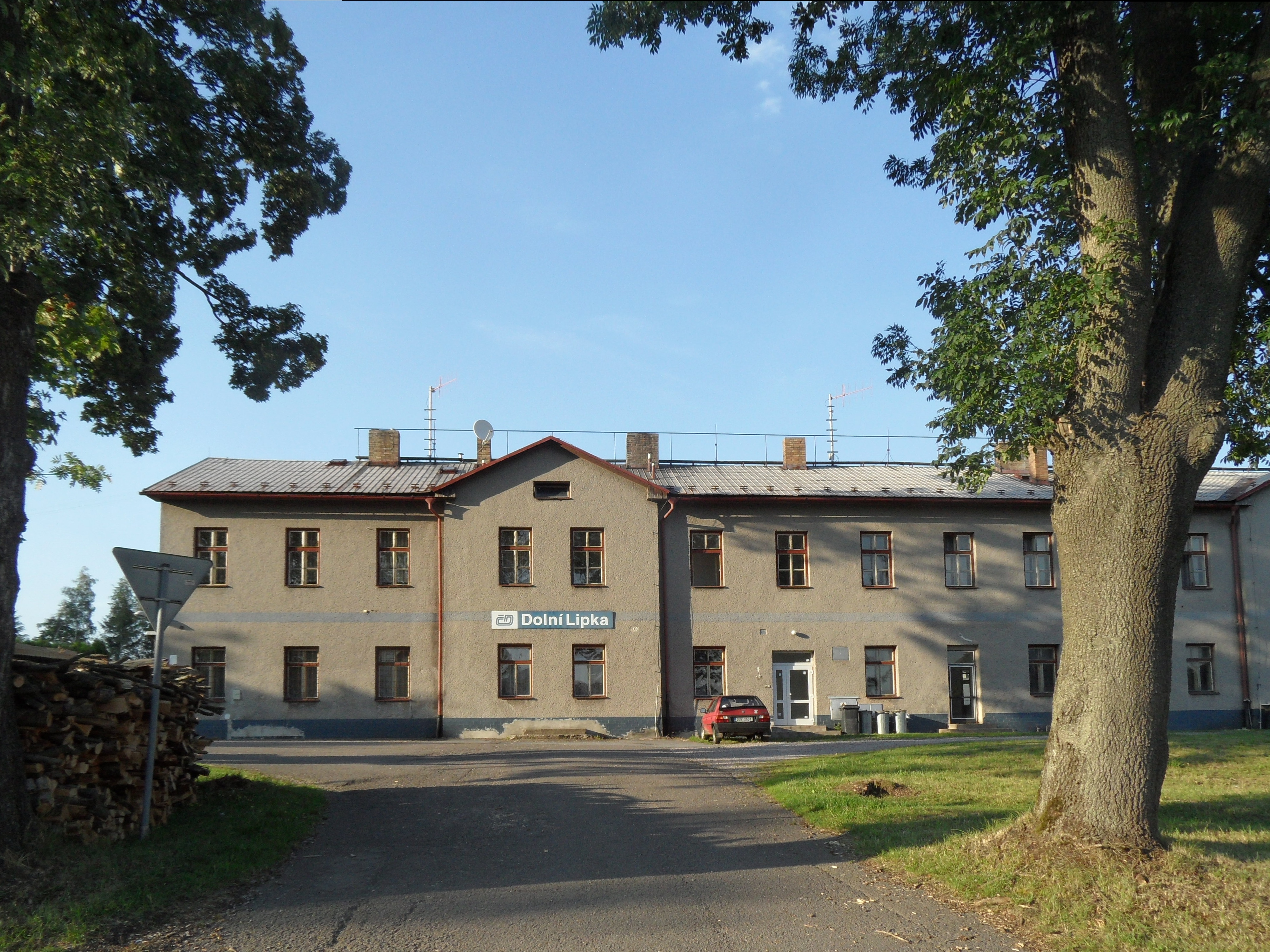 Dolní Lipka A. Overview of Railway Station (from Road I/43). Ústí nad Orlicí District, the Czech Republic.